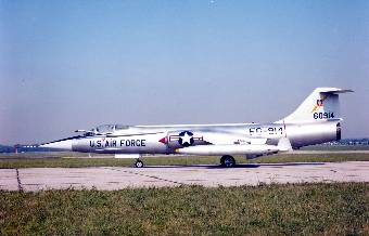 F-104C.